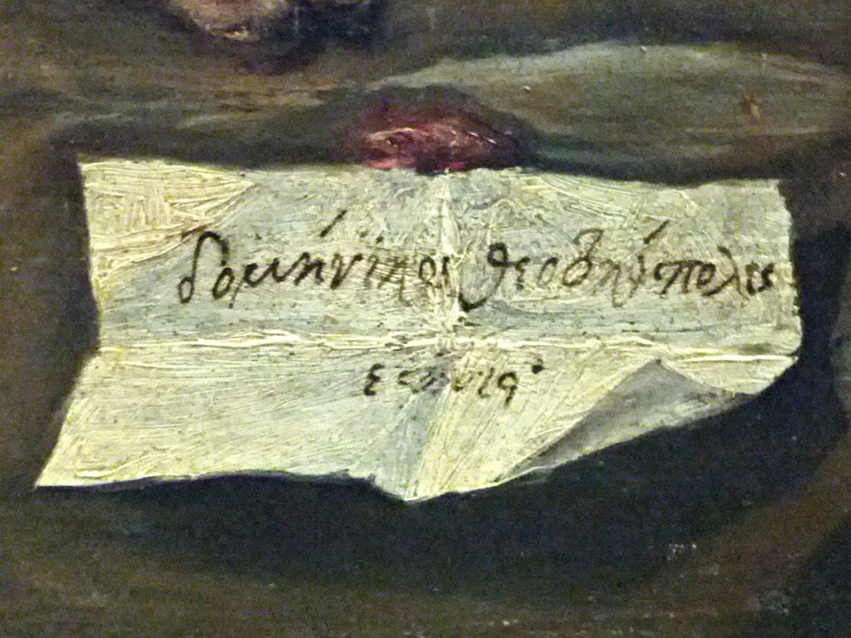 Detail from the lower right corner of St Andrew and St Francis, showing El Greco's signature. Museo del Prado, Madrid.